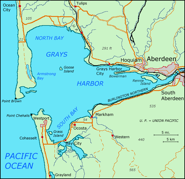 Map of Grays Harbor, WA / Karte von Grays Harbor, WA